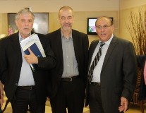 The Minister of Welfare at the Alzheimer Center